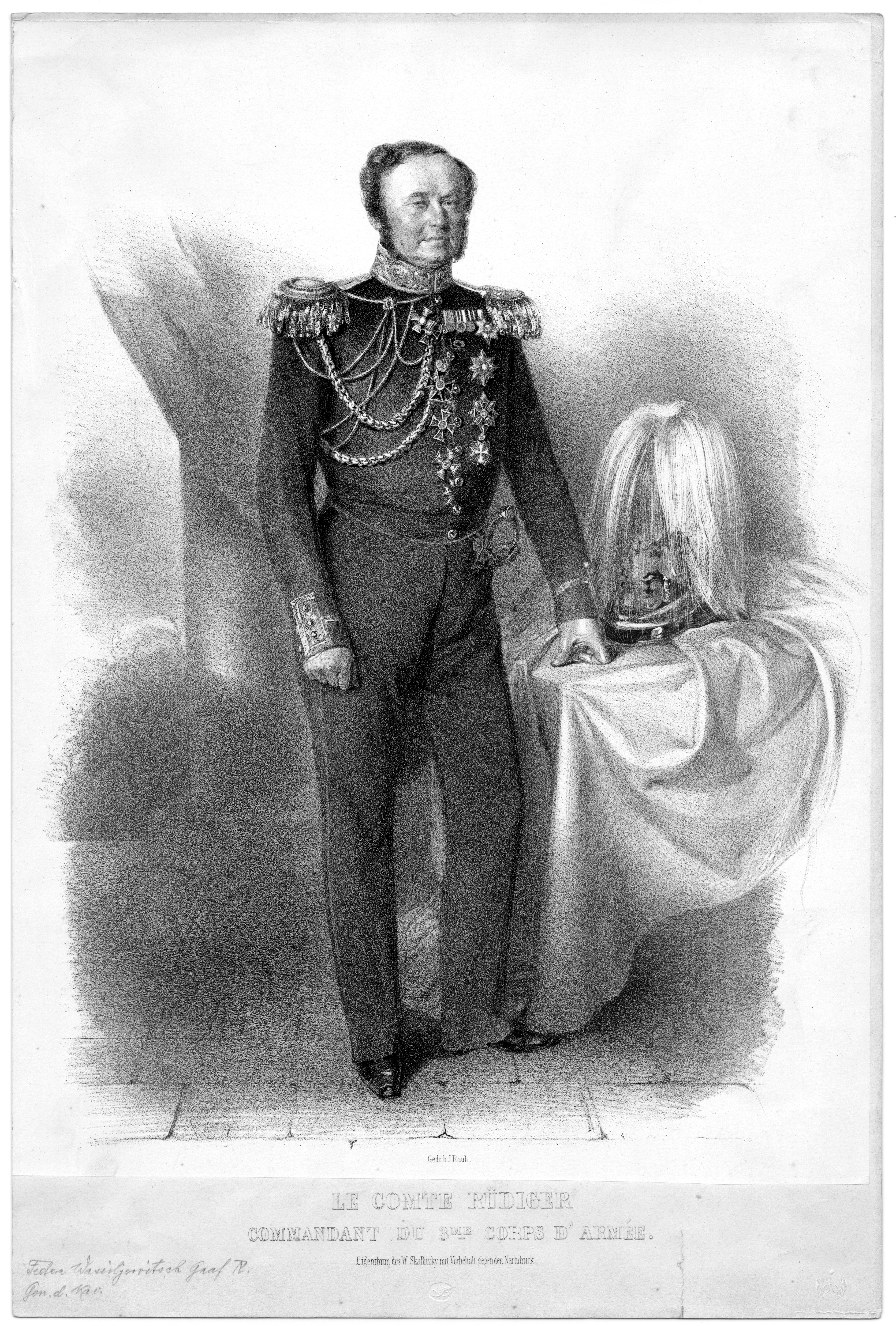 Theodor von Rüdiger (Russian: Фёдор Васильевич Ридигер; 1783 in Mittau – 11 June 1856 in Saint Petersburg) was a German military officer in service of the Russian Empire and a general of the Imperial Russian Army.